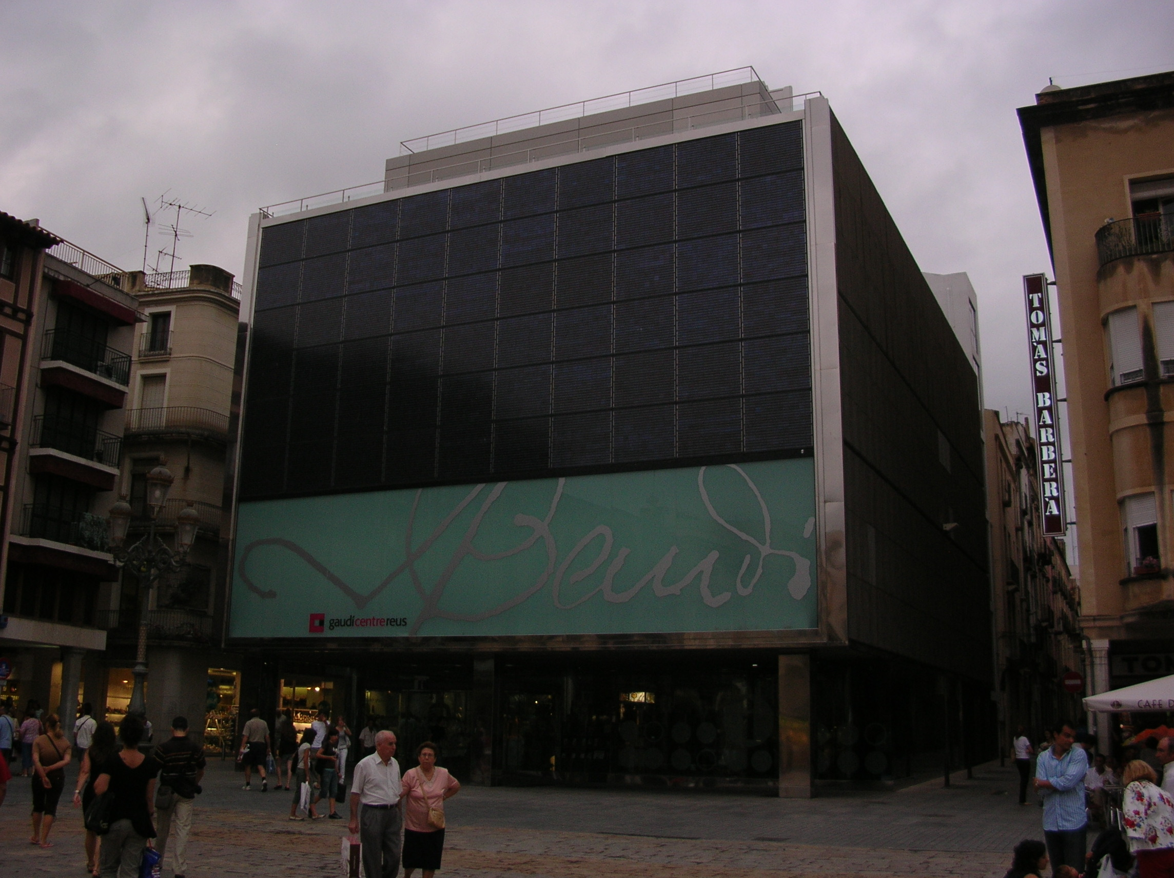 Gaudí Centre in Reus, the city were Gaudí was born, Reus, Catalonia.